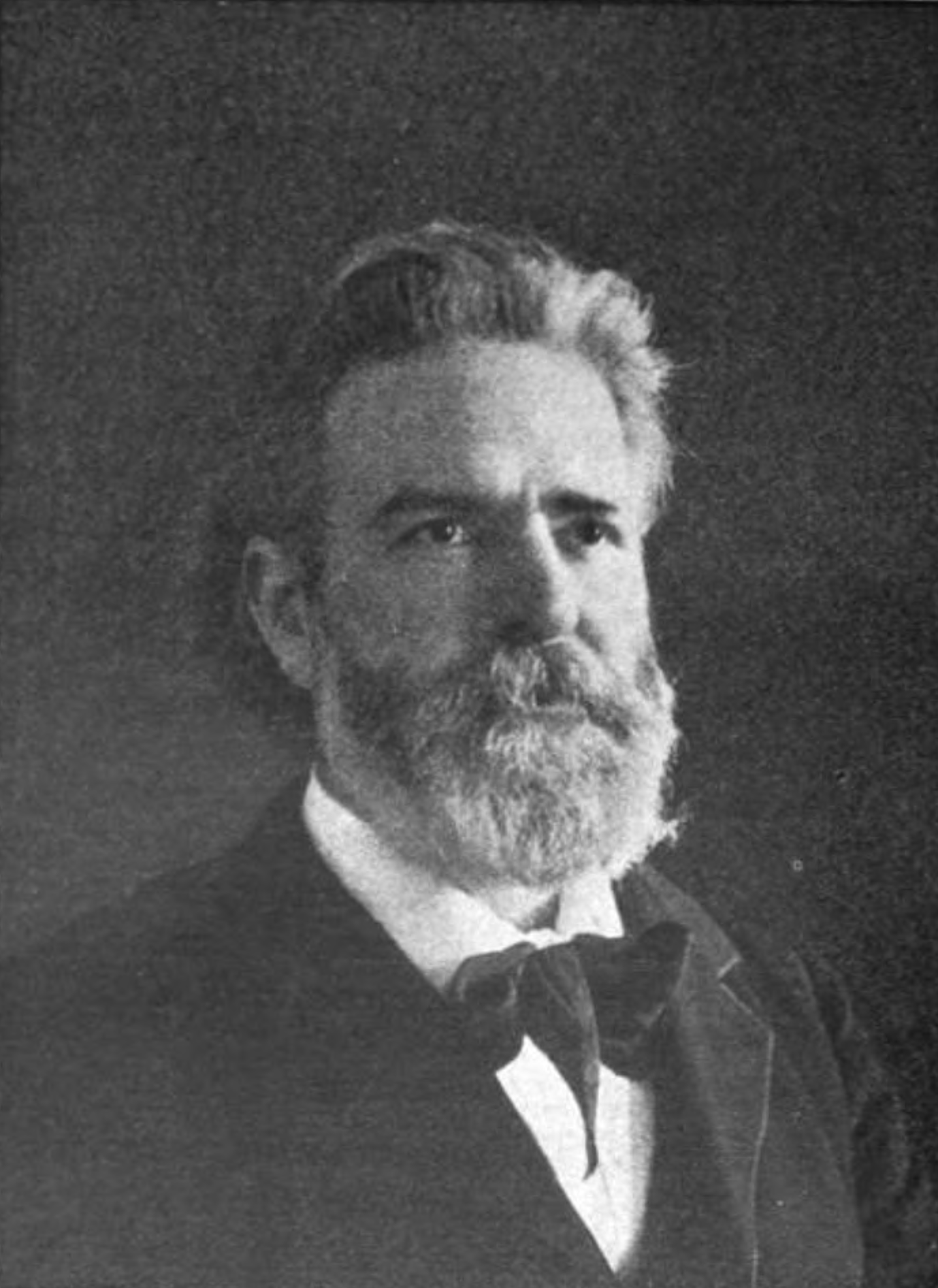 Portrait of American poet Edwin Markham